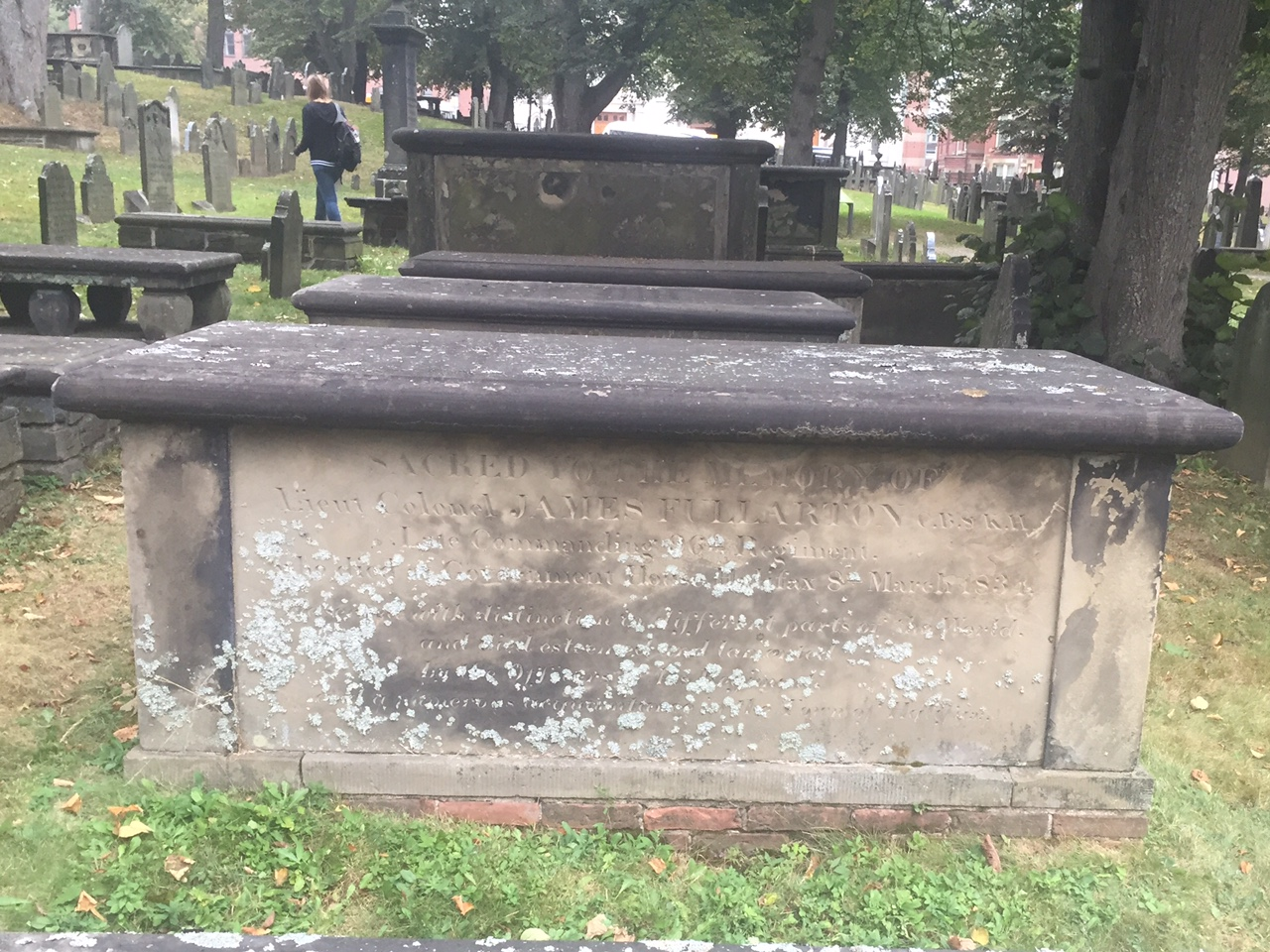 Lieut. Col James Fullarton, Old Buring Ground, Halifax, Nova Scotia